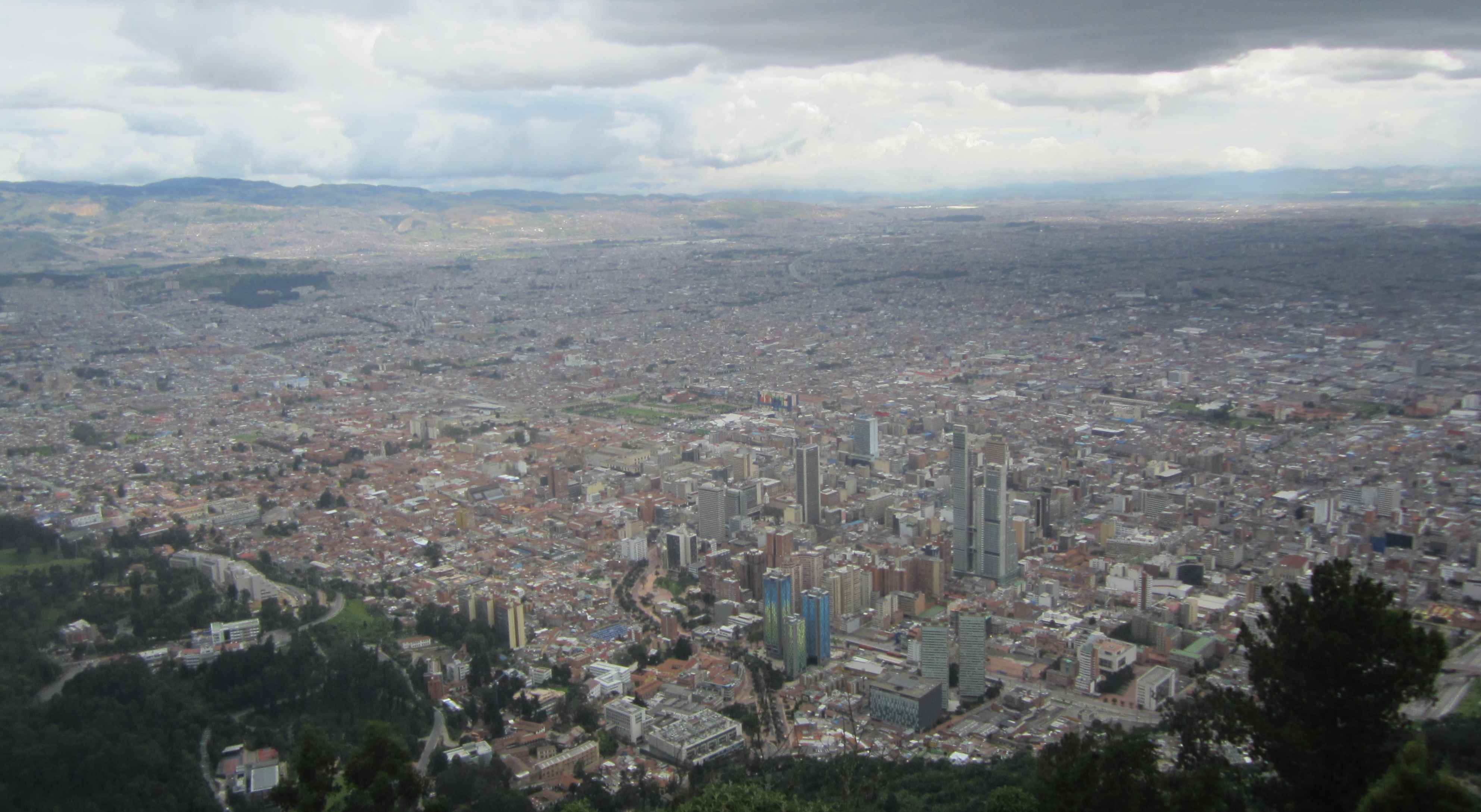 Bogotá as seen from mountain Montserrat